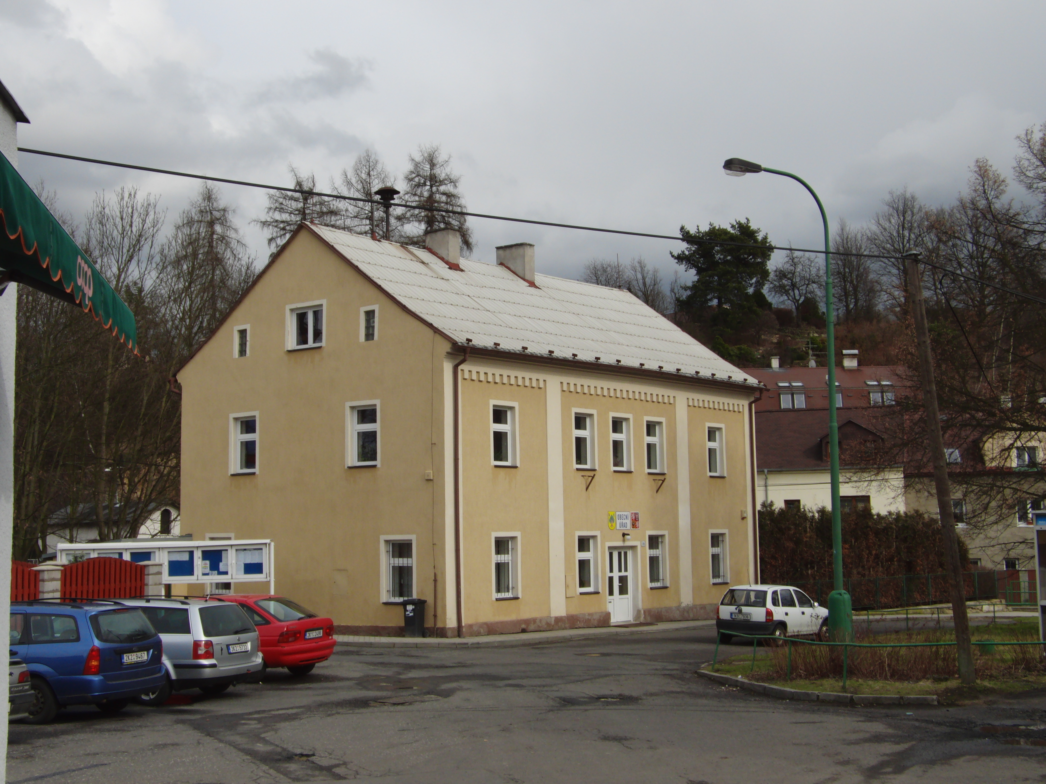 Municipal office in Dalovice (Karlovy Vary District)